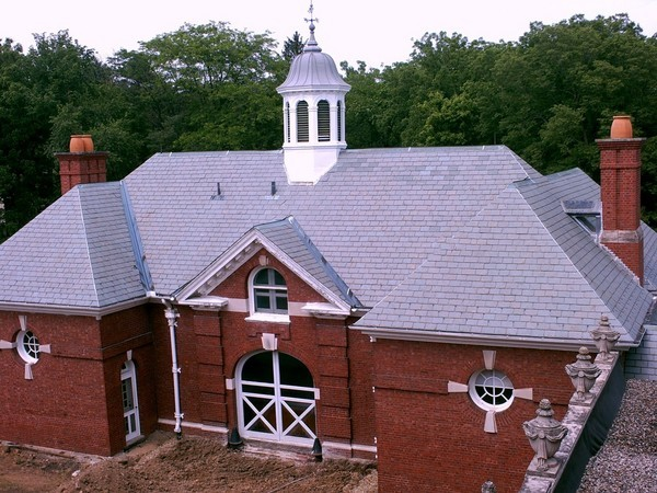 This was originally the horse stable. It was later converted to a garage for automobiles. Today it houses the kitchens and large dining area.